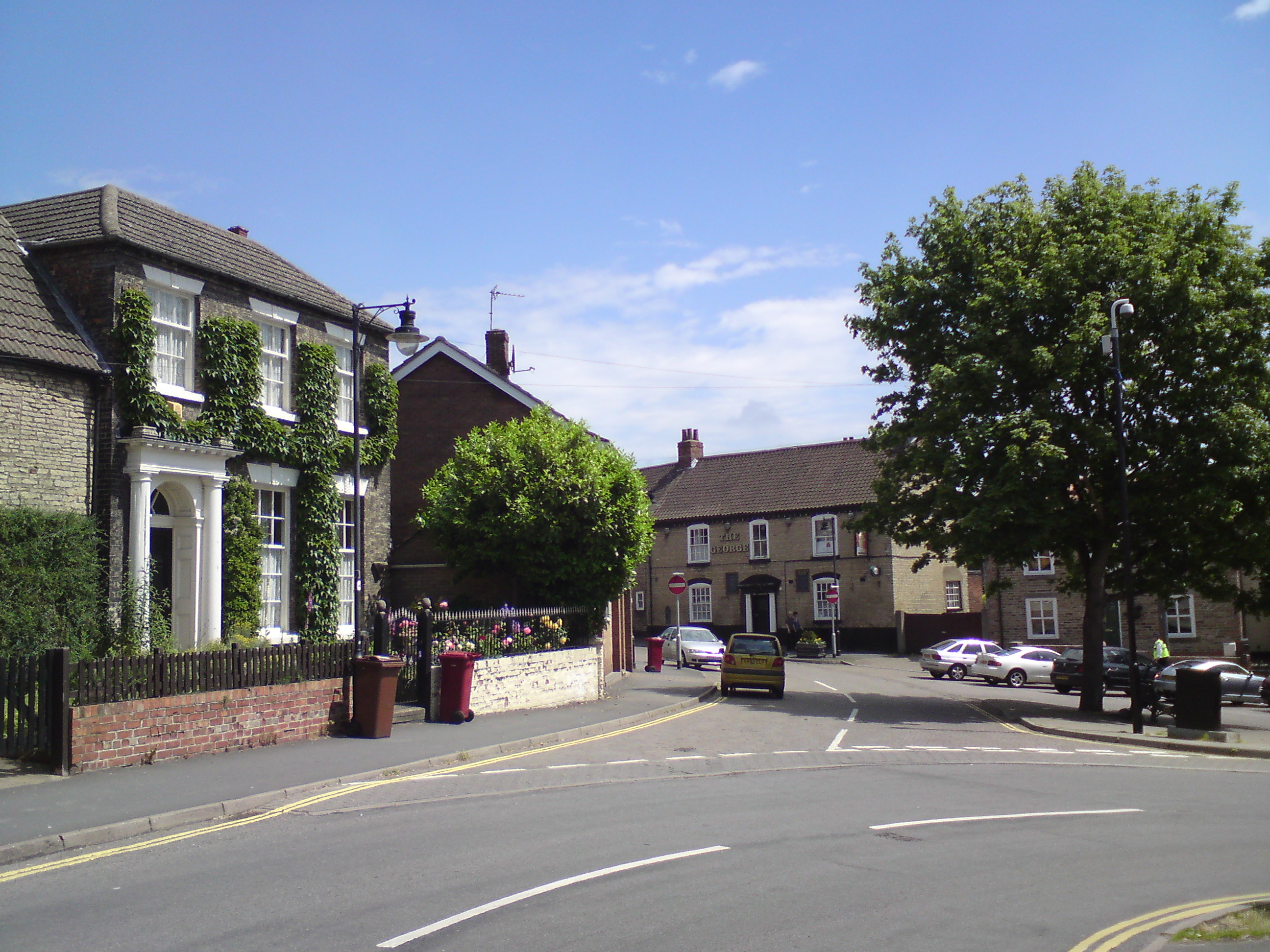 Market Place, Winterton, Lincolnshire